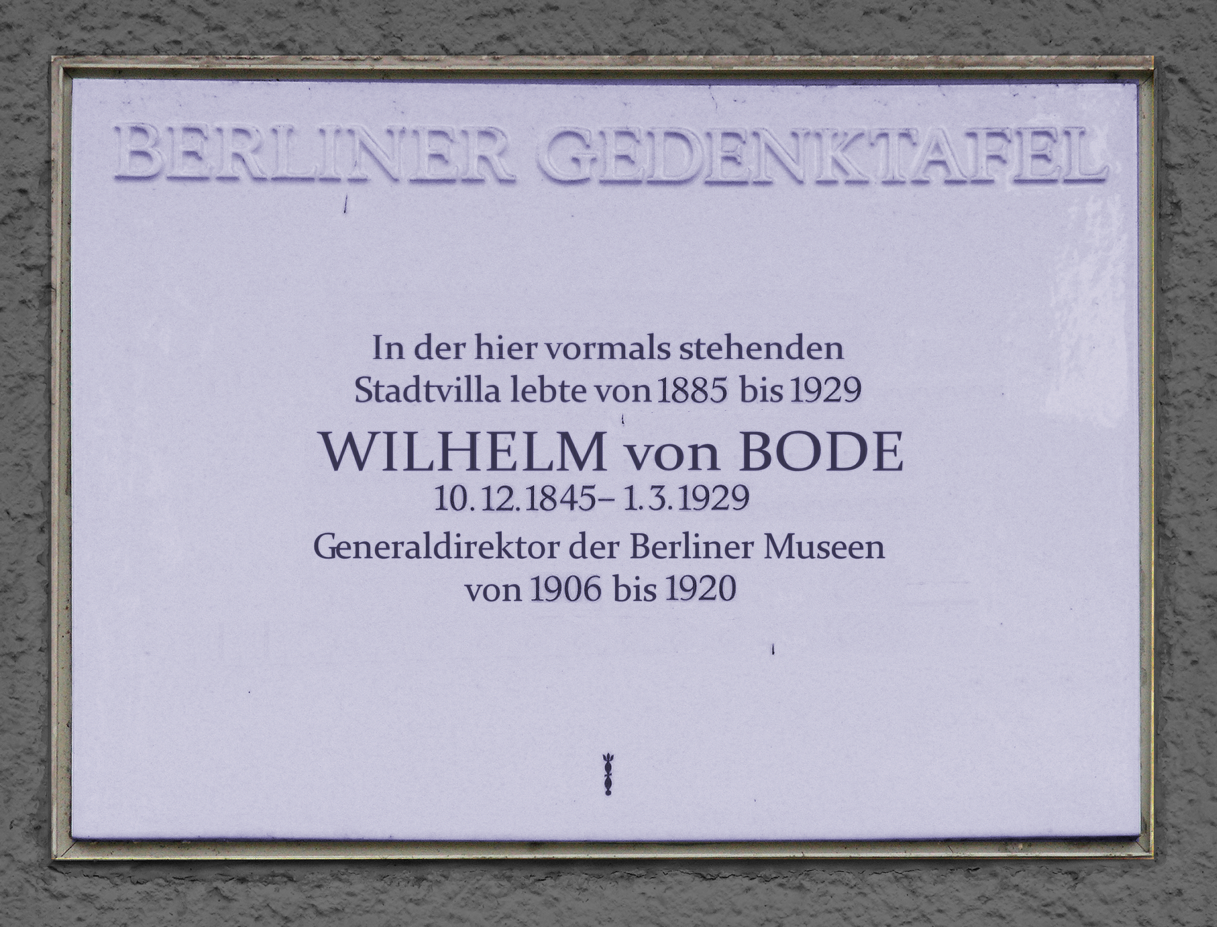 Berlin memorial plaque, Wilhelm von Bode, Uhlandstraße 4-5, Berlin-Charlottenburg, Germany Koordinate:52°30′26″N 13°19′32″E / 52.50722°N 13.32556°E